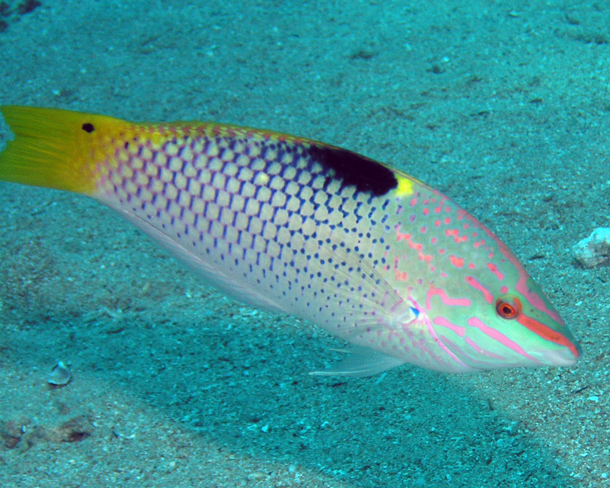 Halichoeres hortulanus